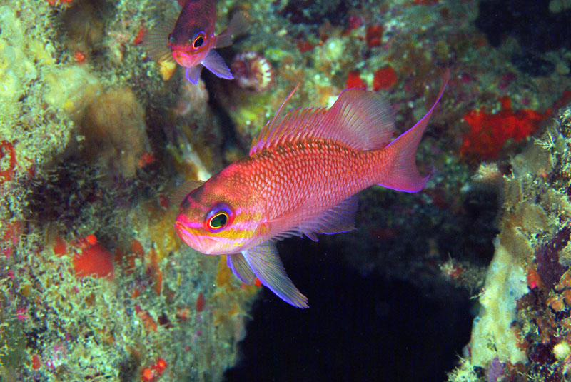 Anthias anthias photographed near Giglio Island (Tuscany, Italy). Depth: 30 m. Within the Arcipelago Toscano National Marine Park. Photo by Stefano Guerrieri.